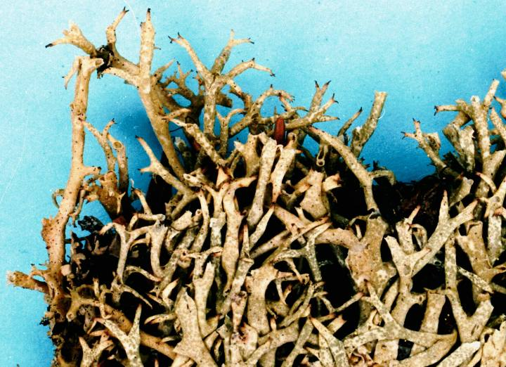 Cladonia boryi Tuck. (photograph of a herbarium specimen) Growing on thin soil over granite outcrops in mixed forest at Blackwoods Camping Area, Mount Desert Island, Acadia National Park, Hancock County, Maine, USA; collected and identified by A. Norden and B. Norden (No. 662, 4 Jun 1974); specimen is now in the Lichen Herbarium of the New York Botanical Garden.